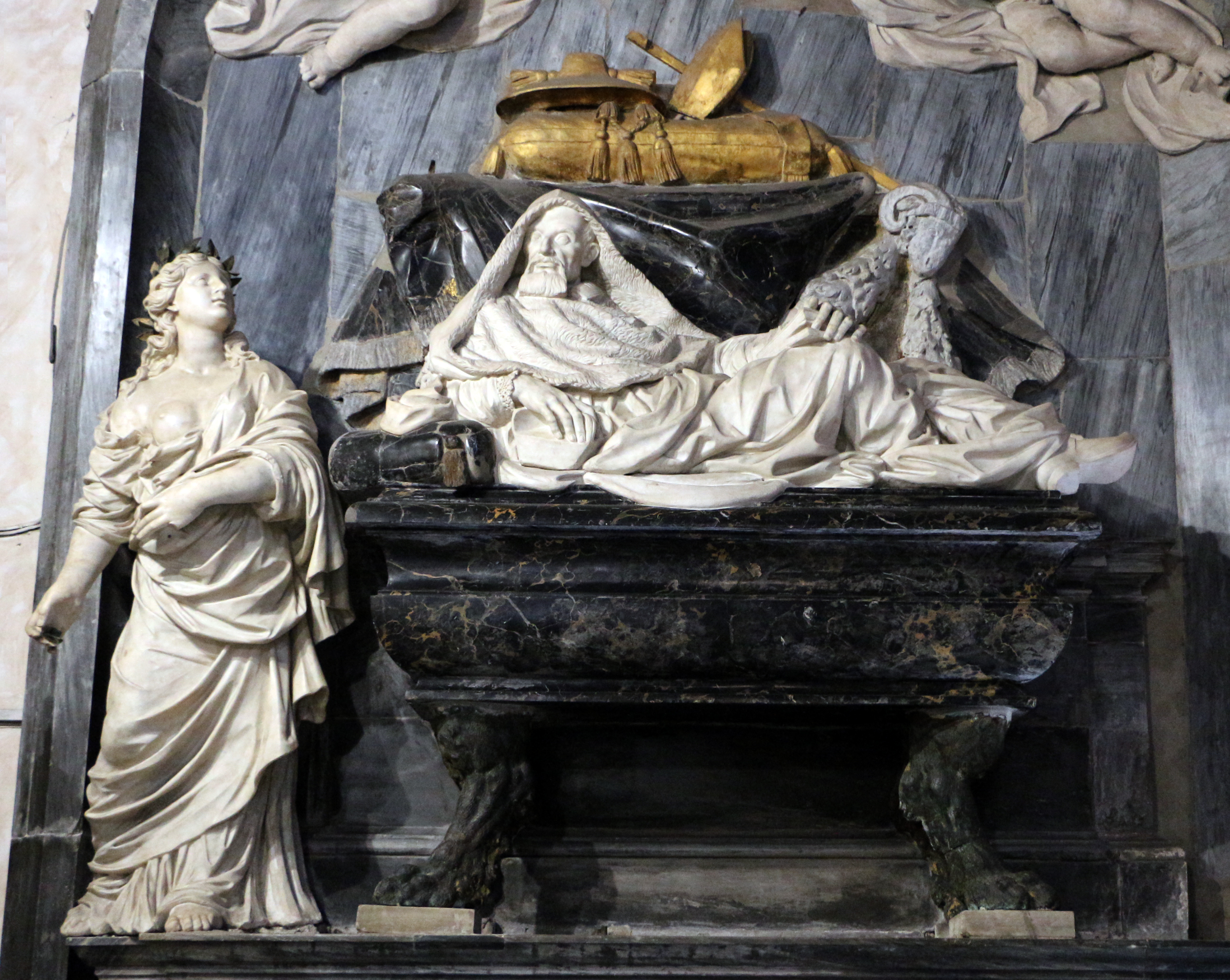 San Marcello al Corso (Rome) - Interior